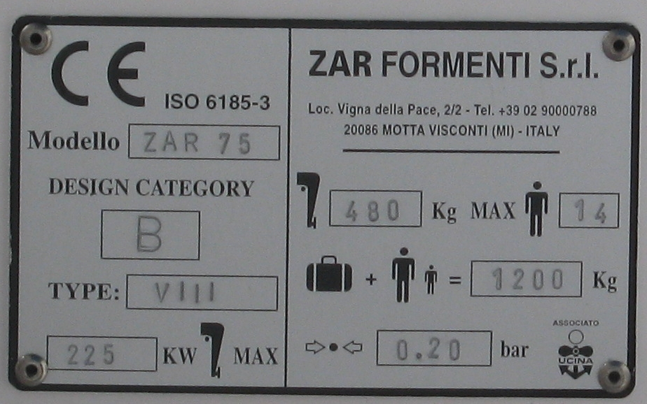 Kategori B